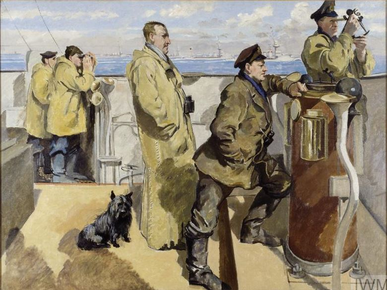 St George's day 1918, on the bridge of 'HMS Canterbury'. When the great naval raid took place on Zeebrugge and Ostend. In the foreground three officers look intently. An officer (probably: Cuthbert Coppinger, Lieutenant, Navigating Officer) on the right operates a sextant. Behind them on the left stand two crewmen using binoculars to stare at the sea beyond the bridge wall. It's a sunny daytime scene but all the men are warmly dressed. The officer in the centre (Capt. Percy Royds R. N.) wears a floor-length duffel coat. On the deck behind him sits a small black dog. In the right foreground the steering gear is contained in a metal cylinder with the upright metal communications trumpet nearby. catalogue_number = Art.IWM ART 1311 database_number = 5424